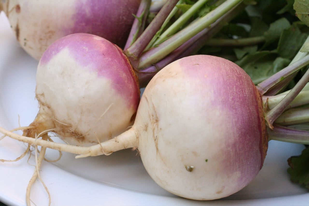 Turnips (Brassica rapa)